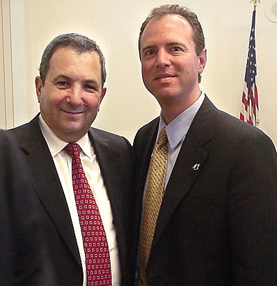 (June 25, 2002) -- Congressman Adam Schiff, a member of the House International Relations Committee, meets with Ehud Barak, Prime Minister of Israel from 1999 to 2001.